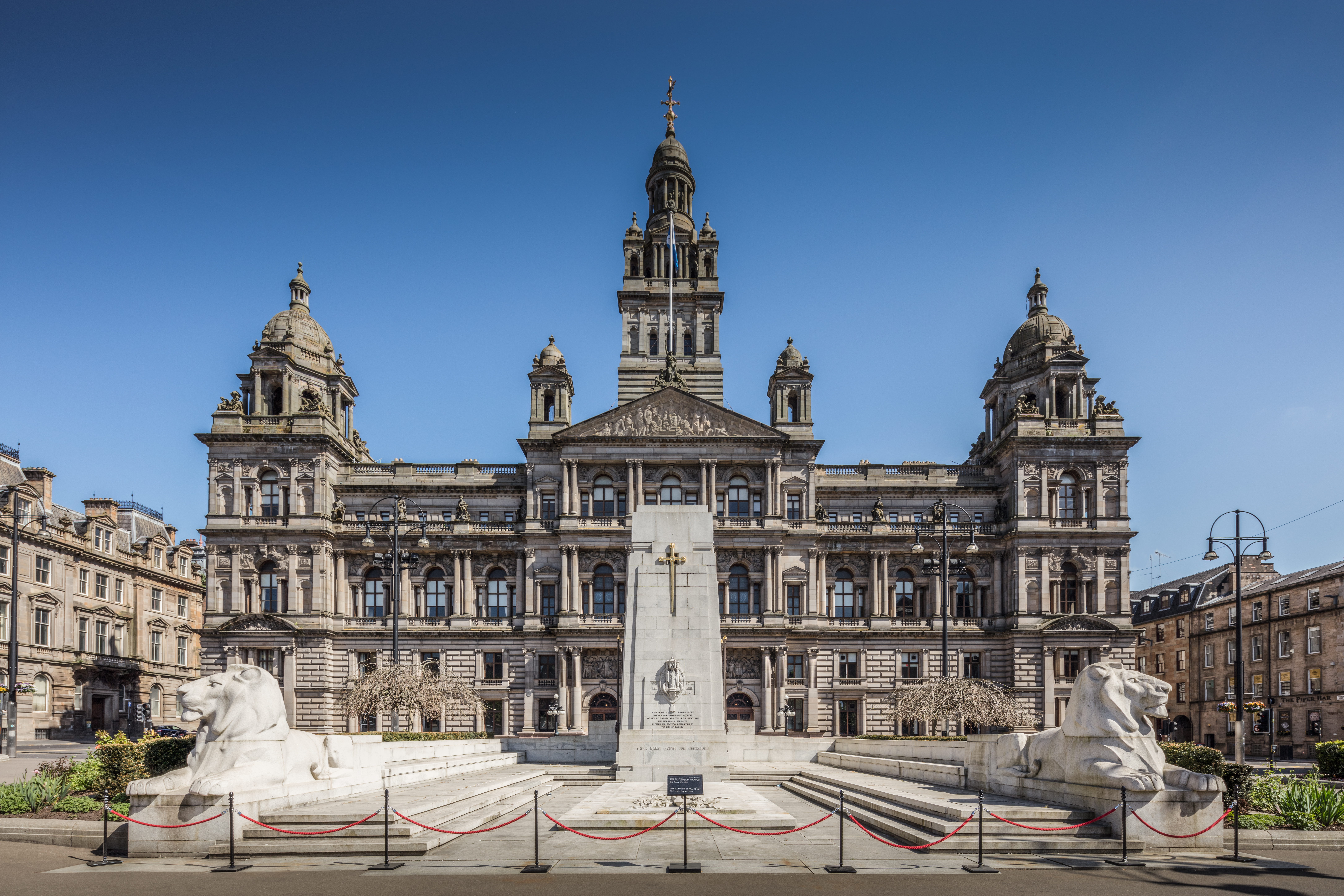 Here is a photograph taken from outside Glasgow City Chambers. Located in Glasgow, Scotland, UK.